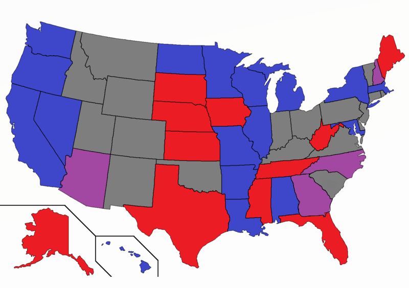 This map shows which states have had/has a female senator via party